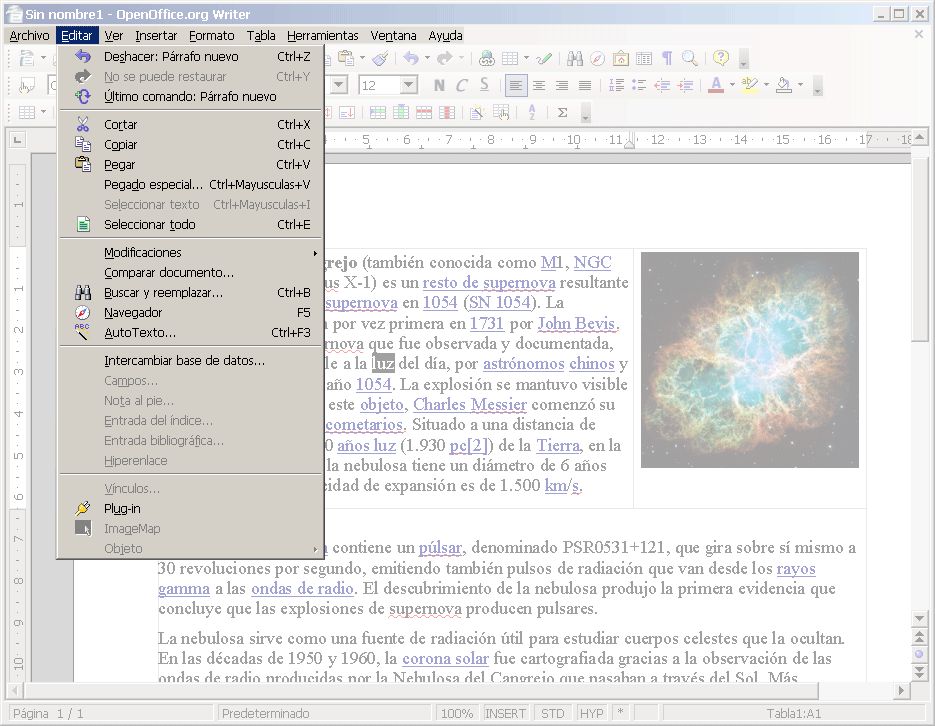 Writer menu screenshot